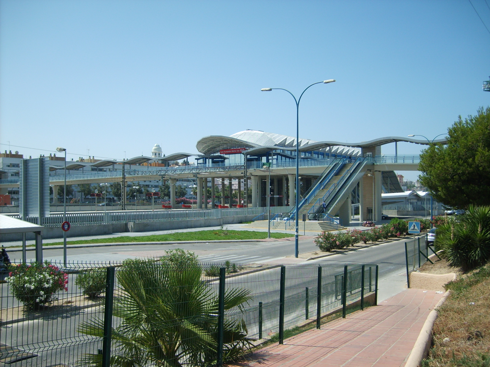 "San Fernando-Bahía Sur" train station, in San Fernando (Cádiz, Andalusia).